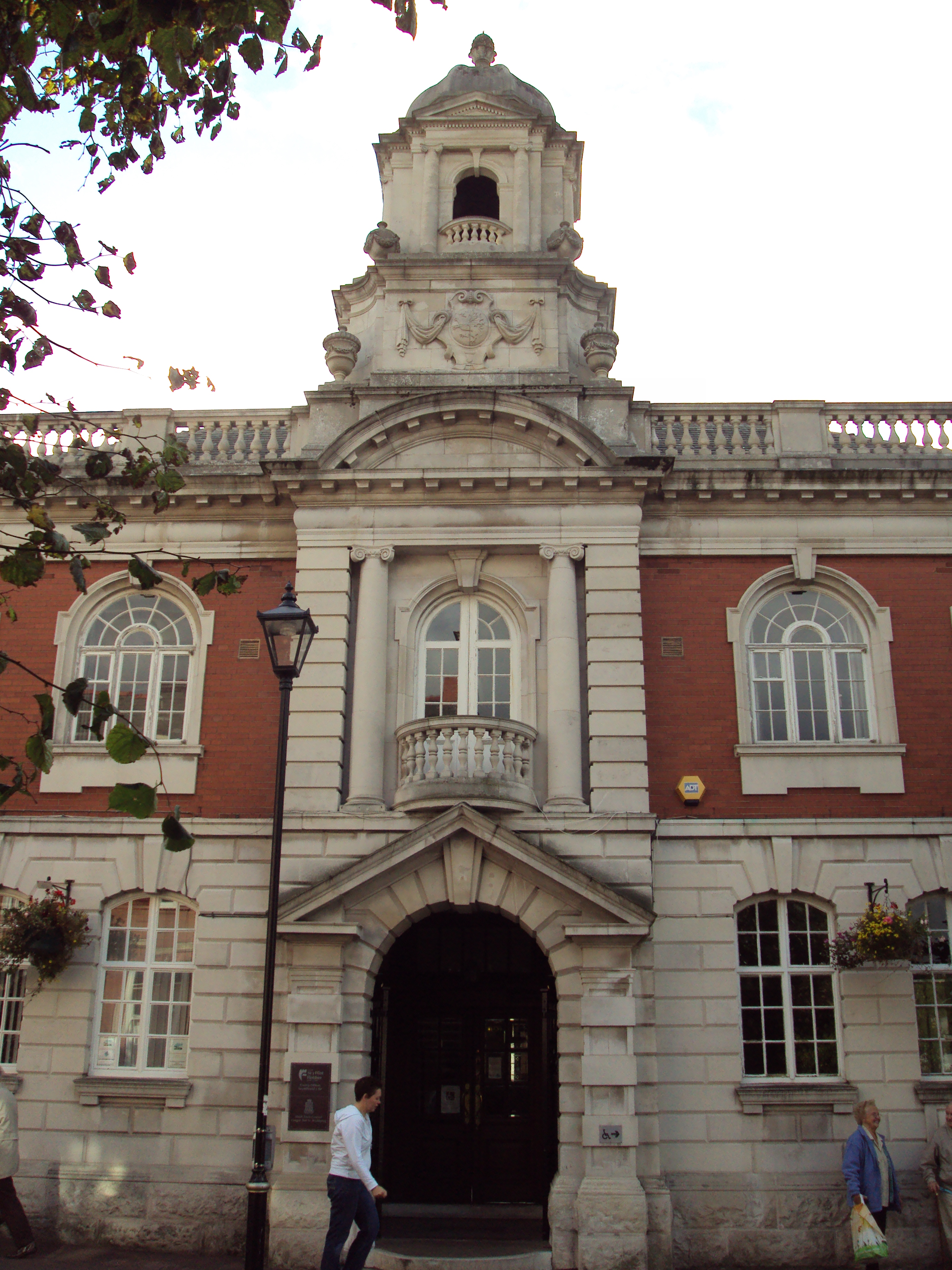 Mold town hall, Mold, Flintshire, Wales.